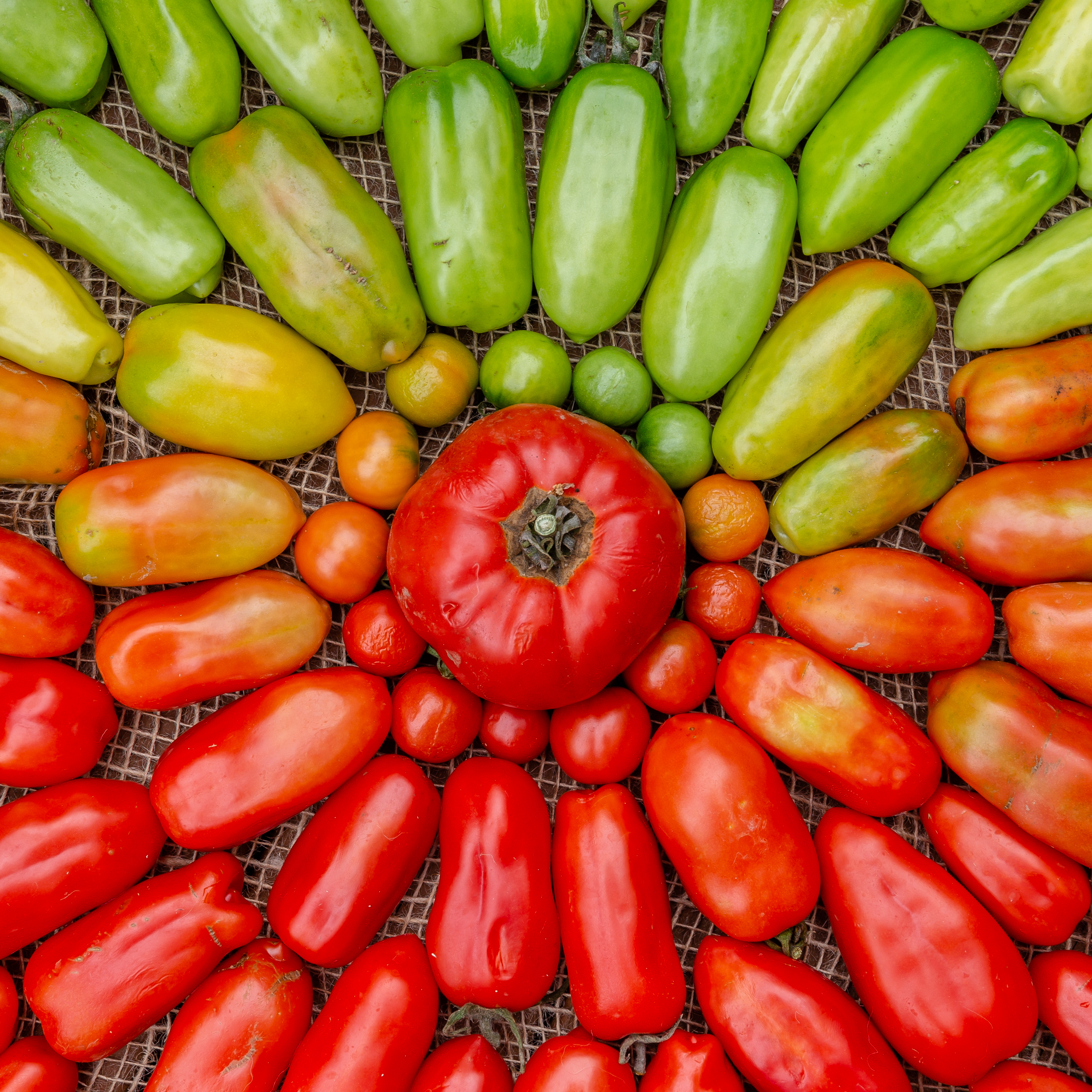 Organic home-grown tomatoes arranged in a circle. Christchurch, New Zealand.